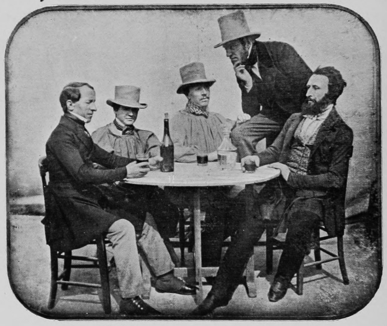 Photograph of (from left) Noël Paymal Lerebours, 2 unknown men, Frédéric Martens and Antoine Gaudin. From Le Musée Rétrospectif de la Photographie à l'exposition universelle de 1900, by A. Davanne, Maurice Bucquet, and Leon Vidal. Published by Gauthier-Villars, Paris 1903.